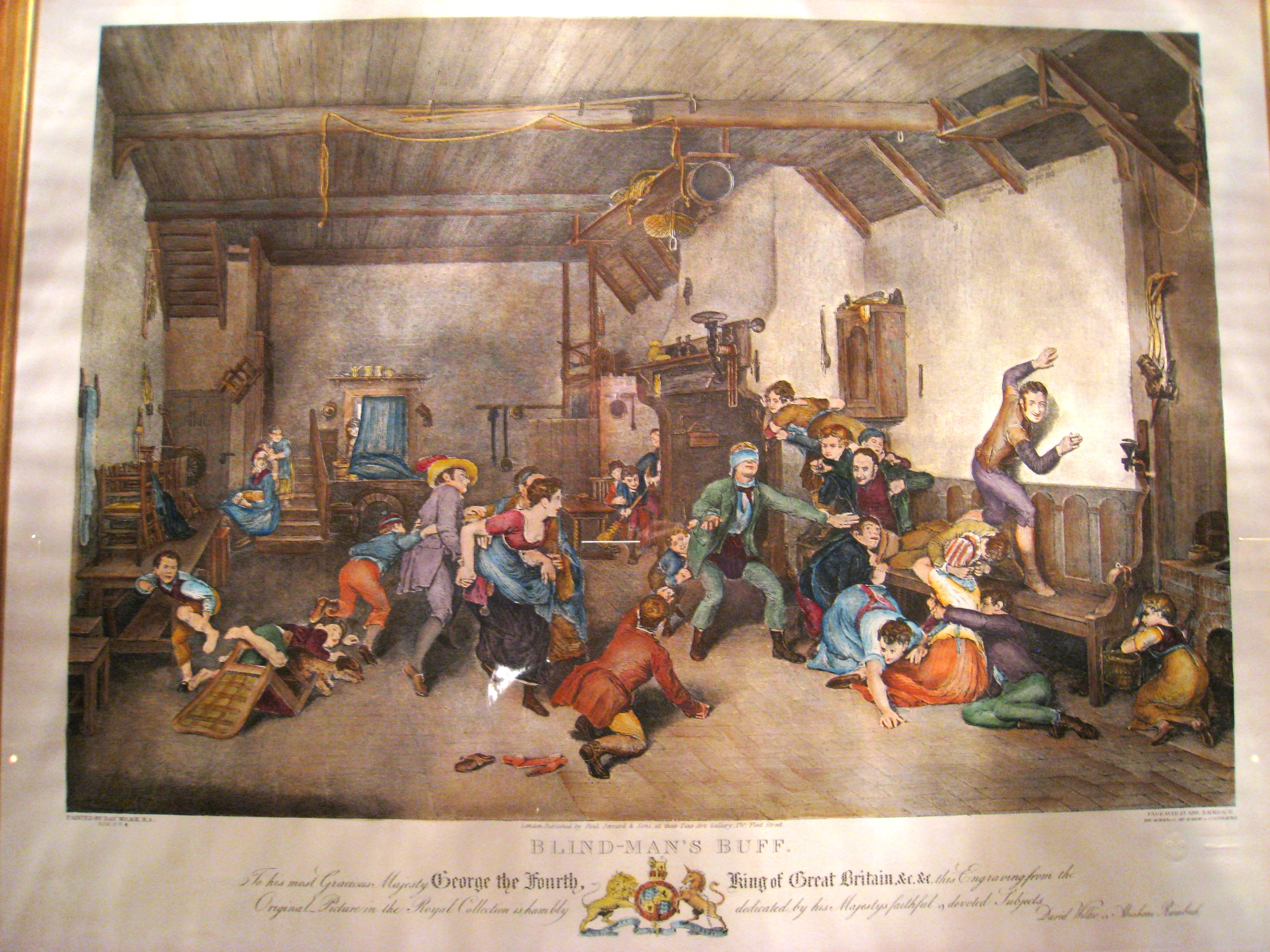 Blind-Man's Buff [sic], published by Paul Jarrard & Sons (London, England). This print was made within the lifetime of King George IV of England (12 August 1762 – 26 June 1830), hence copyright (if any) has long since expired.